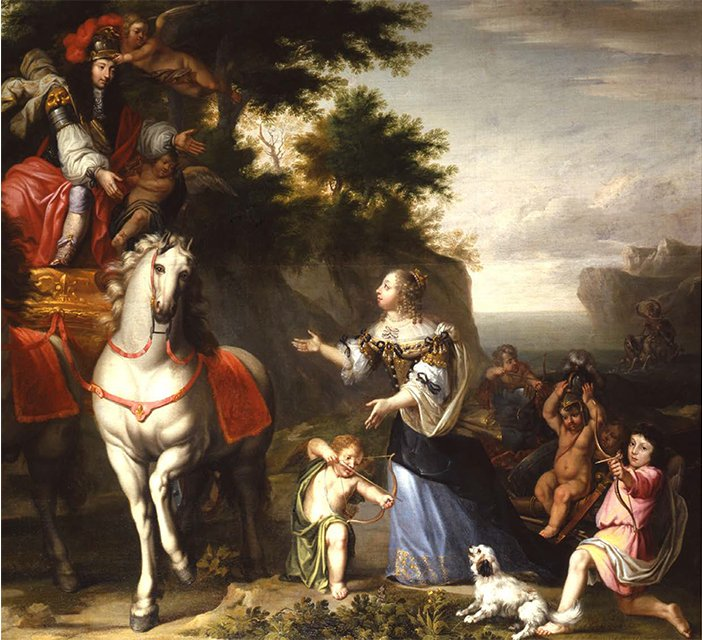 Allégorie au mariage de Louis XIV et de l´infante Marie-Thérèse d´Autriche by Jean Nocret, 1660-1664, Musée Basque et de l’histoire de Bayonne